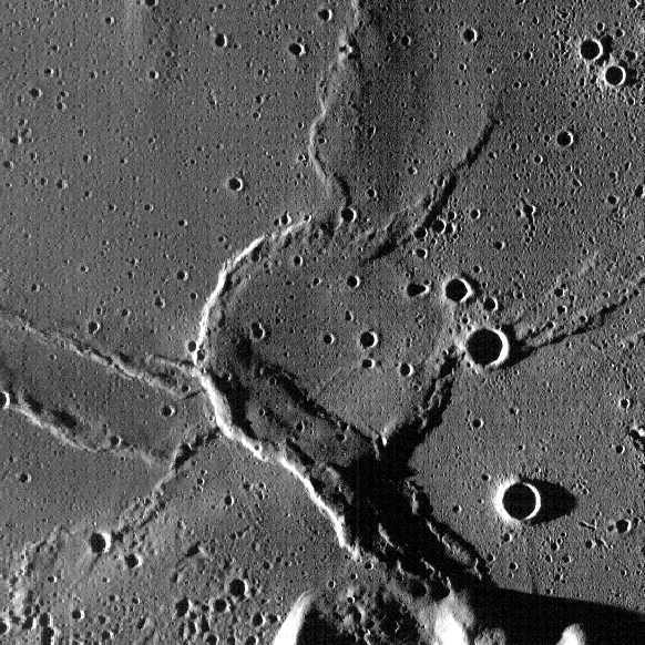 Unnamed 16-km ghost crater in southern Mare Crisium on the Moon. It is covered with lava, but wrinkle ridges revealed its outline. Two ridges joining it on the left are beginning of a big ridge Dorsum Termier, and the ridge on the right is beginning of Dorsa Harker (a map). Coordinates of the center are 11.1°N, 58.7°E. Photo by Lunar Reconnaissance Orbiter, made with Wide Angle Camera on 2 January 2010 from altitude 42 km. Sun elevation is 3.2°. Width of the photo is 40 km, north is up.